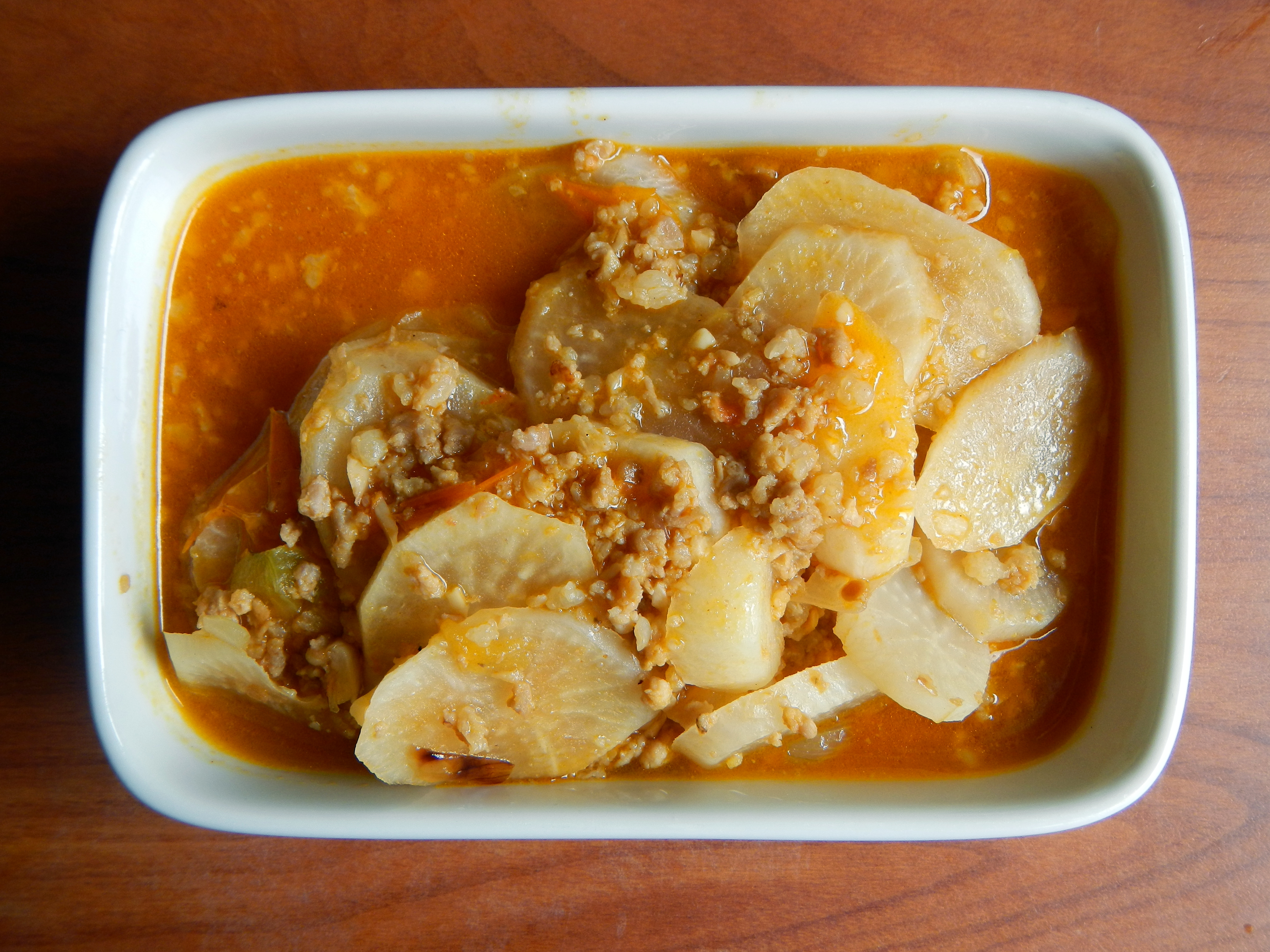 Ginisang[1]Labanos with ground beef (La Familia, Baliuag, Bulacan) (Raphanus sativus)